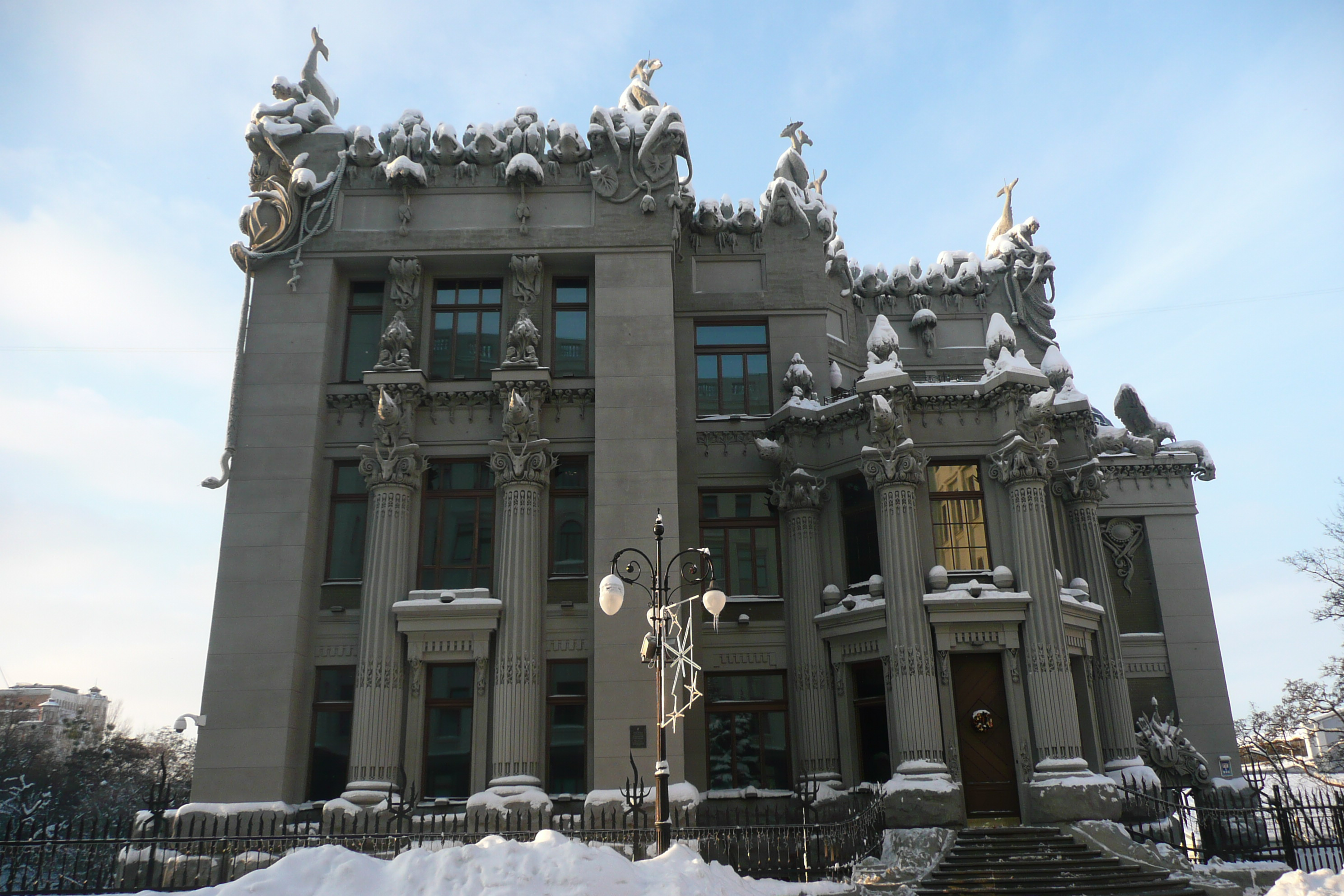 House with Chimeras in Kiev